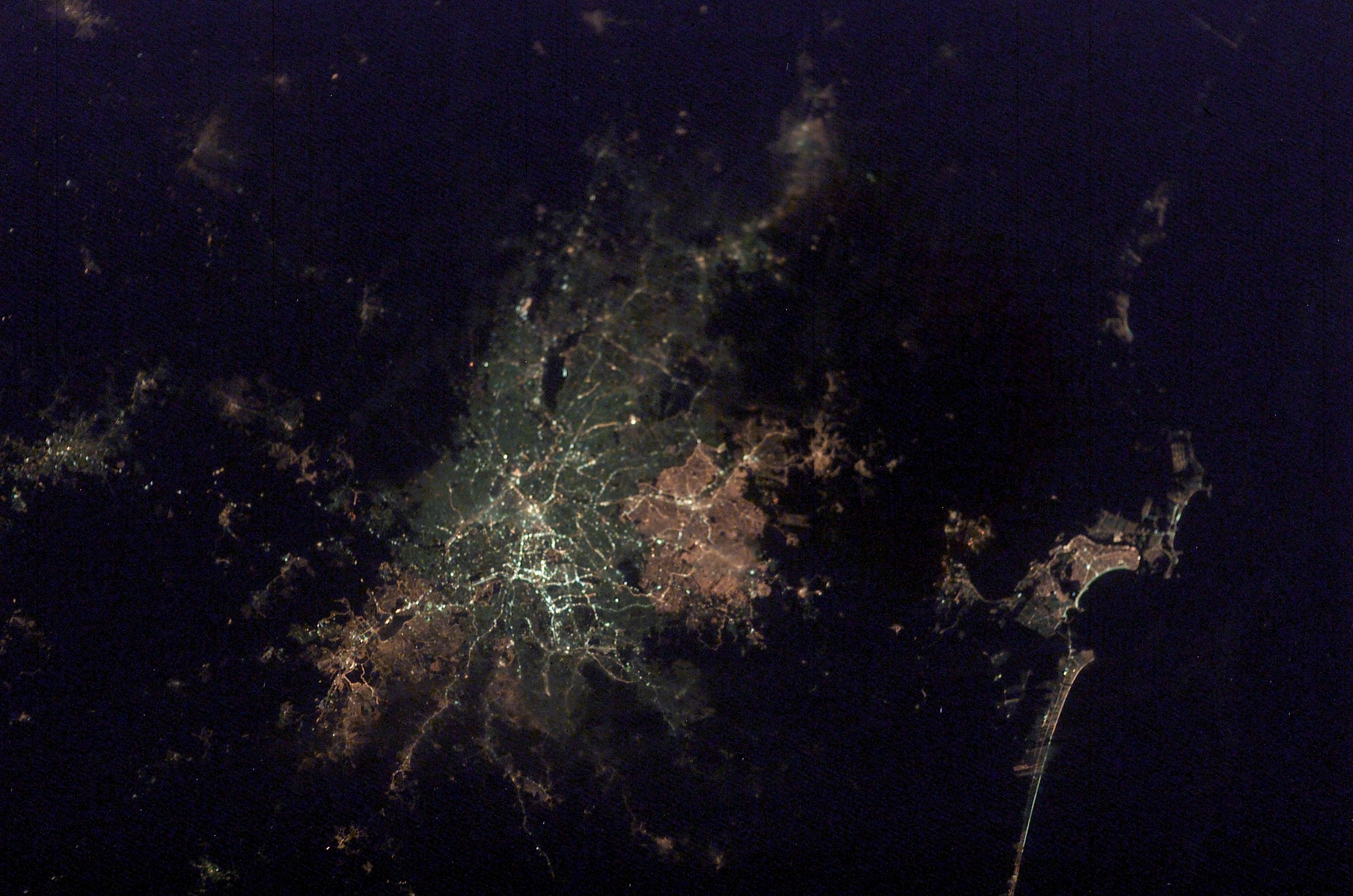 Satellite image of the metropolitan region of São Paulo at night. This image shows the sprawling urban footprint of São Paulo, Brazil, South America’s largest city with roughly 17 million people. The different colors (pink, white, and gray) define different types and generations of streetlights. The port of Santos, on the right side of the photograph, is also well defined by lights.